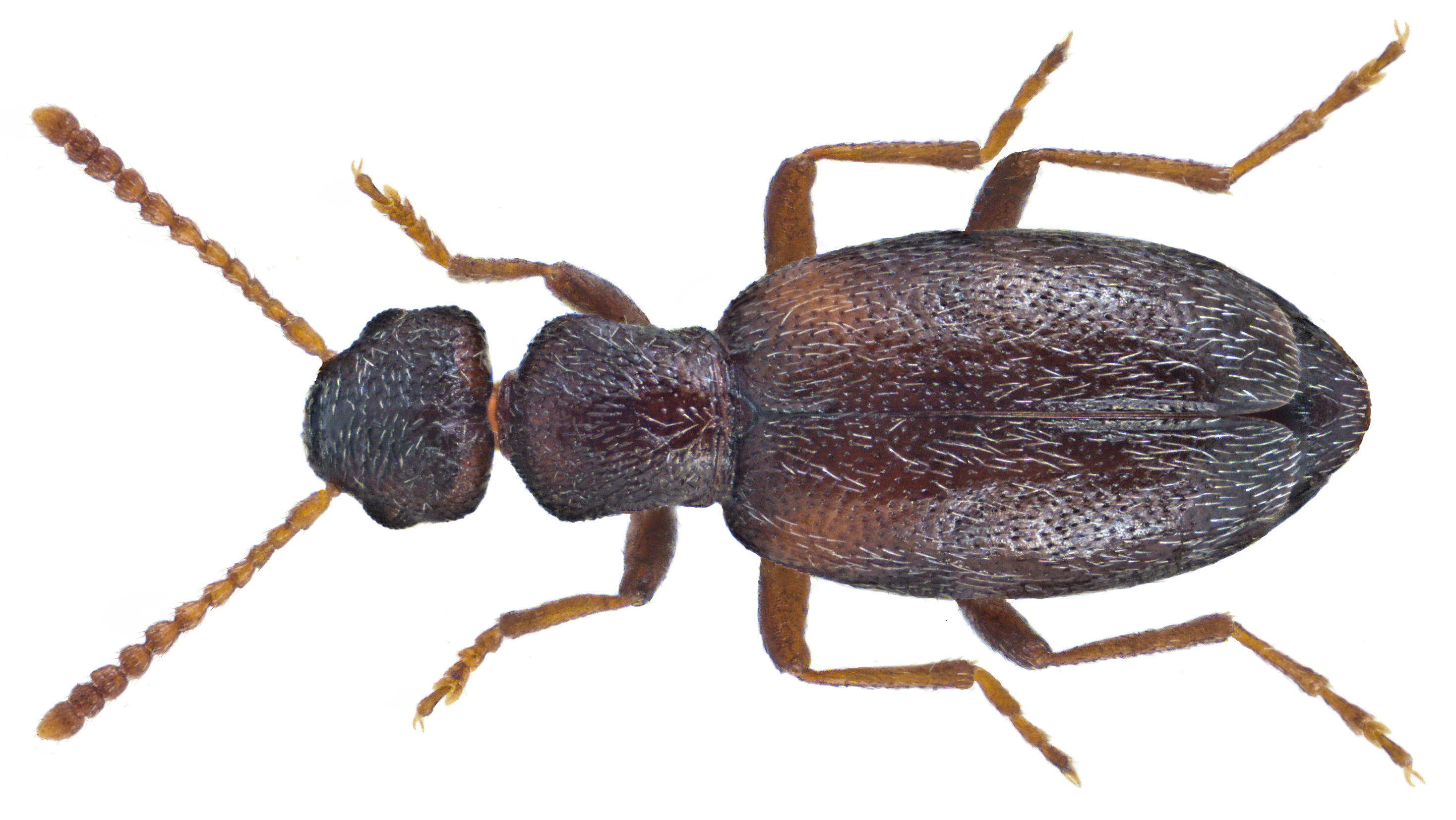 Family: Anthicidae Size: 2,6 mm Distribution: South Europe Location: France, Corsica, Ghisonaccia, Tour de Vignale leg. U.Schmidt, 24.V.1973; det. G.Uhmann, 1977 Photo: U.Schmidt, 2015